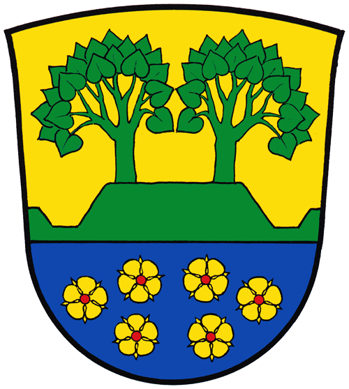 Coat of Arms of Barendorf First upload in de-wp: Die wilde 13 (21:04, 8. Jan. 2007 - Bild:Gemeinde Barendorf.jpg)